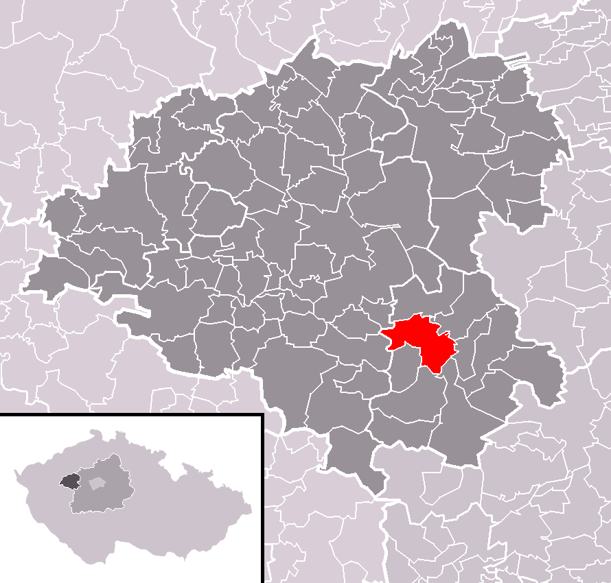 Location of Velká Buková municipality within Rakovník District and (identical) administrative area of Rakovník as a Municipality with Extended Competence.